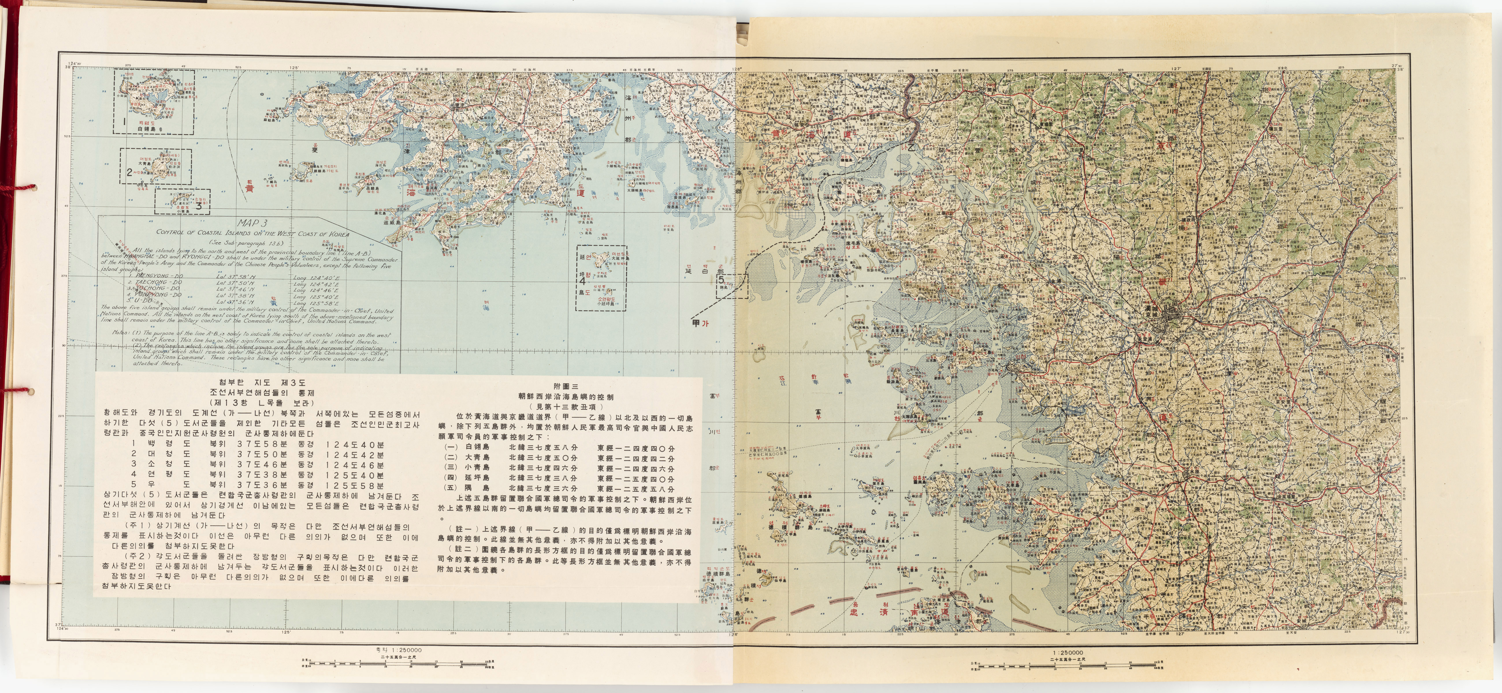 Scope and content: Korean Armistice Agreement Volume 2, Maps of June 8, 1953, and the Temporary Agreement Supplementary to the Armistice Agreement of July 27, 1953